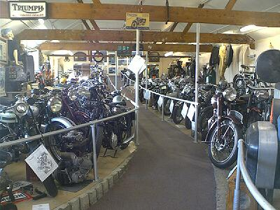 London Motorcycle Museum - view from entrance ramp